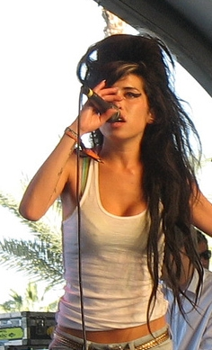 Amy Winehouse In Coachella